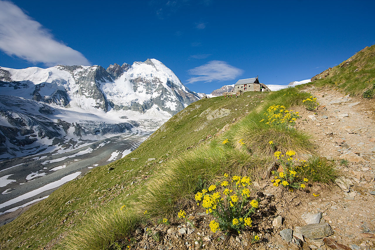 Dent d'Hérens and Schönbiel Hut near Zermatt